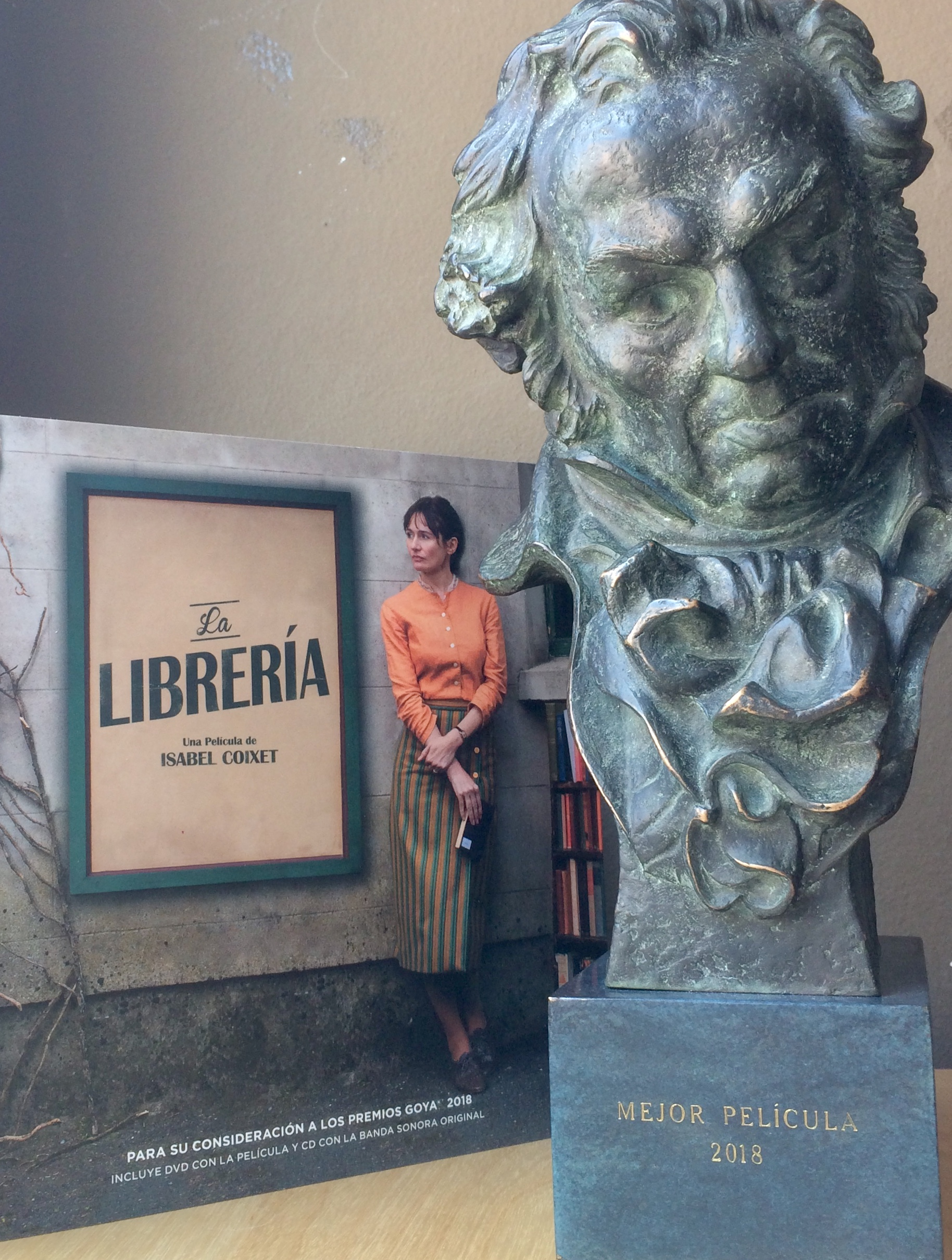 Goya Award - Best Picture, 2018. The Bookshop, by Isabel Coixet.